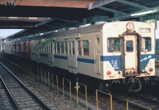 JR East Kiha 35 series DMU for Sagami Line, at Hashimoto Station